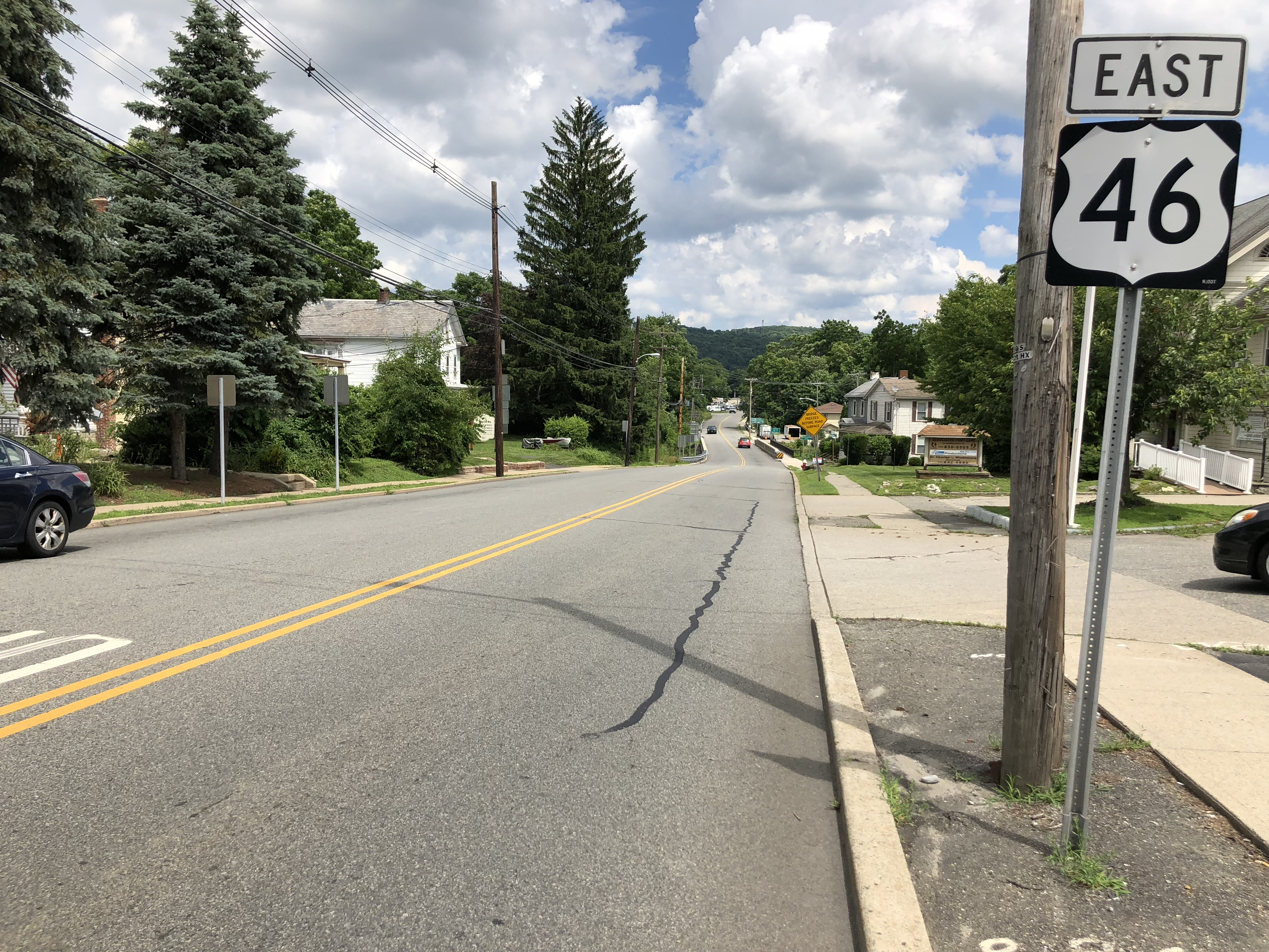 View east along U.S. Route 46 (Main Street/Mill Street) just east of New Jersey State Route 182 and Warren County Route 517 (Mountain Avenue) in Hackettstown, Warren County, New Jersey